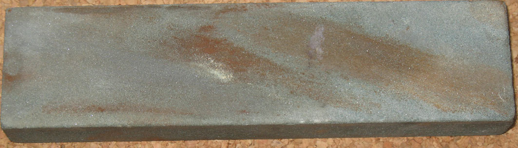 Skuresten af karborundum. This file was made by B. M. Askholm, Please credit this: B. Askholm foto, July 2006 An email to B. Mathias at baskholm(--) would be appreciated too.